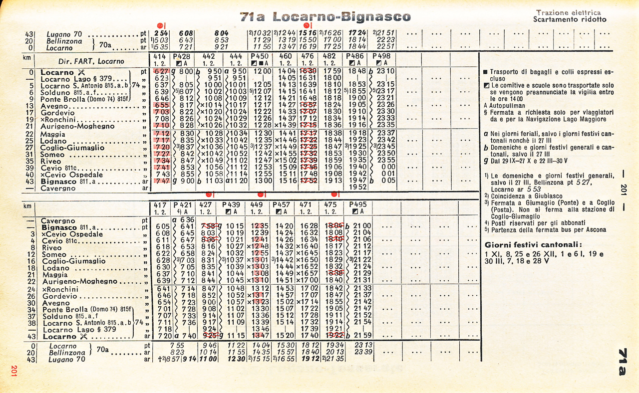 Timetable (mail edition) of the Locarno-Bignasco railway, winter 1963/1964.